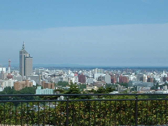 An overview of Sendai-city town center part from ruins of Sendai Castle. Sendai-city is located in northern part of Japan.